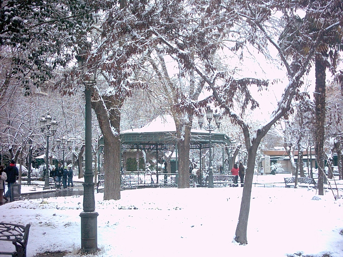 A work release by Francisco Javier Martin Lopez Puertollano, 29 January 2006, Cities of Spain, donated to Wikipedia